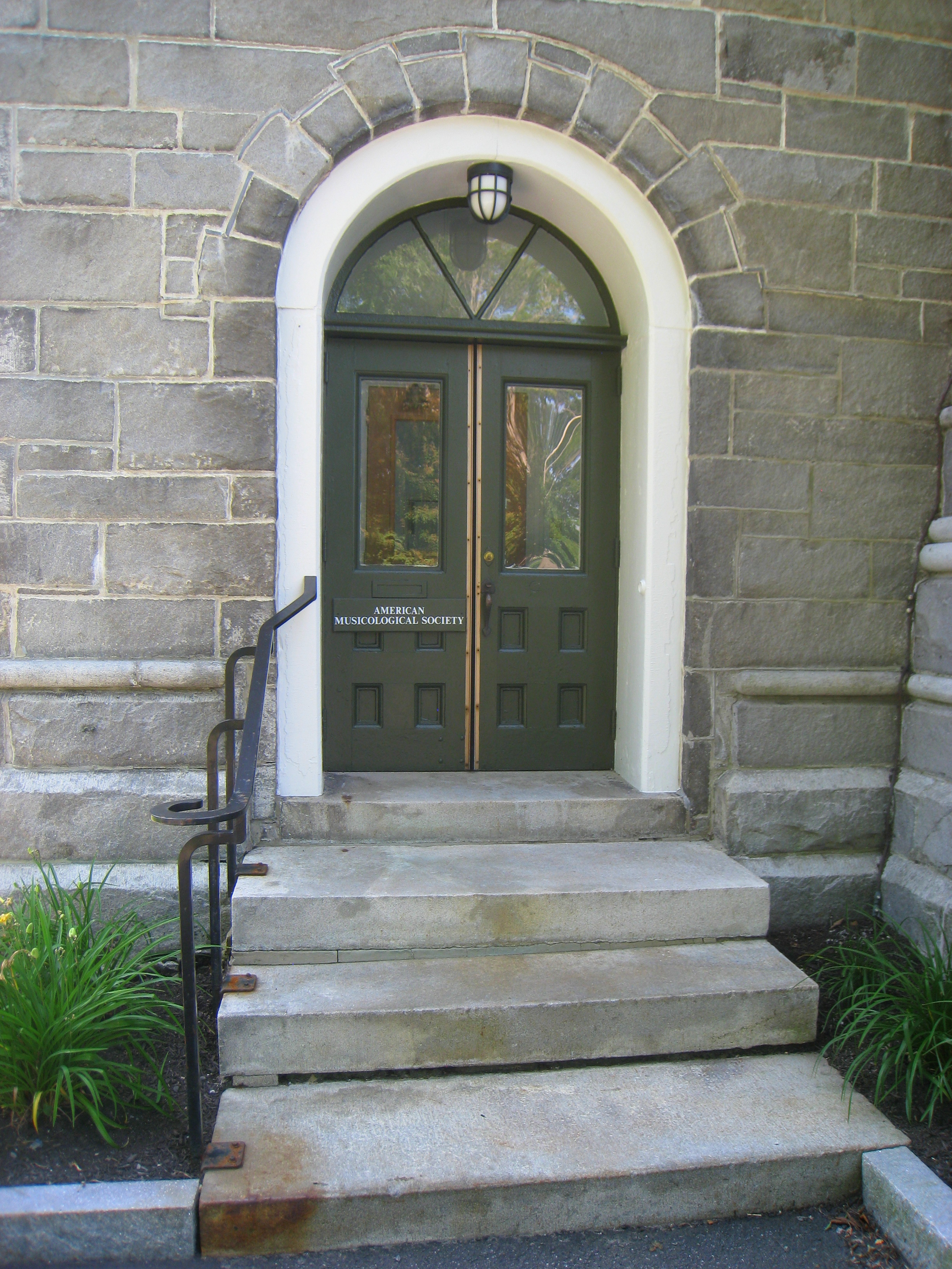 American Musicological Society entrance, in Bowdoin College Chapel, Bowdoin College, Brunswich, Maine, USA.